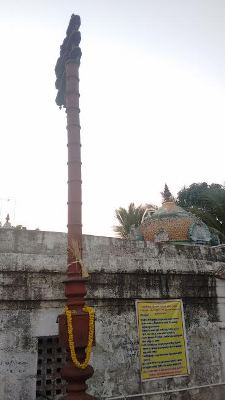 Vallam yoga narasimha perumal temple வல்லம் யோக நரசிம்மப்பெருமாள் கோயில்